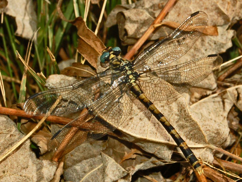 O. uncatus. Female